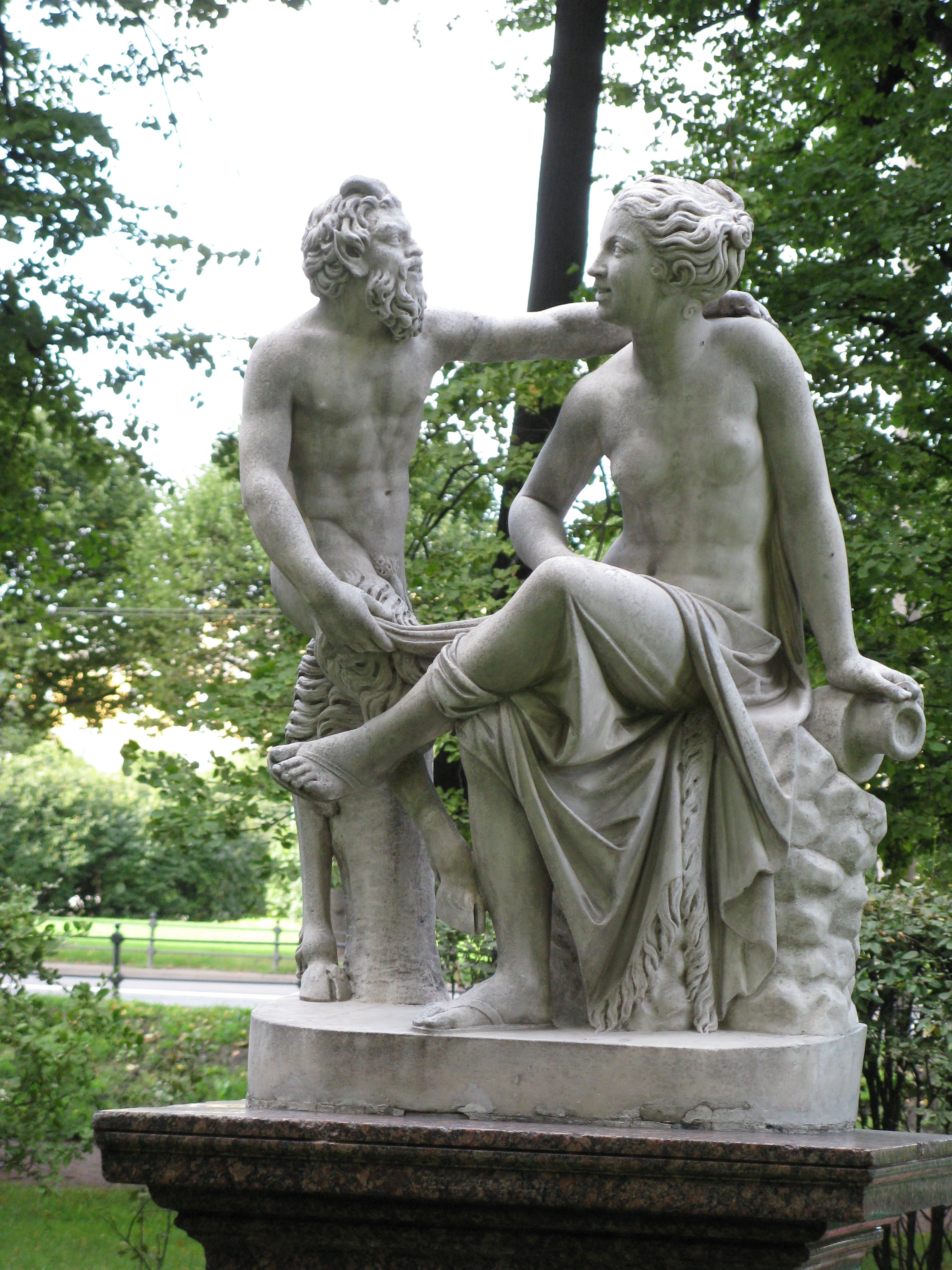 Pan with a Nymph at Summer Garden in Saint Petersburg